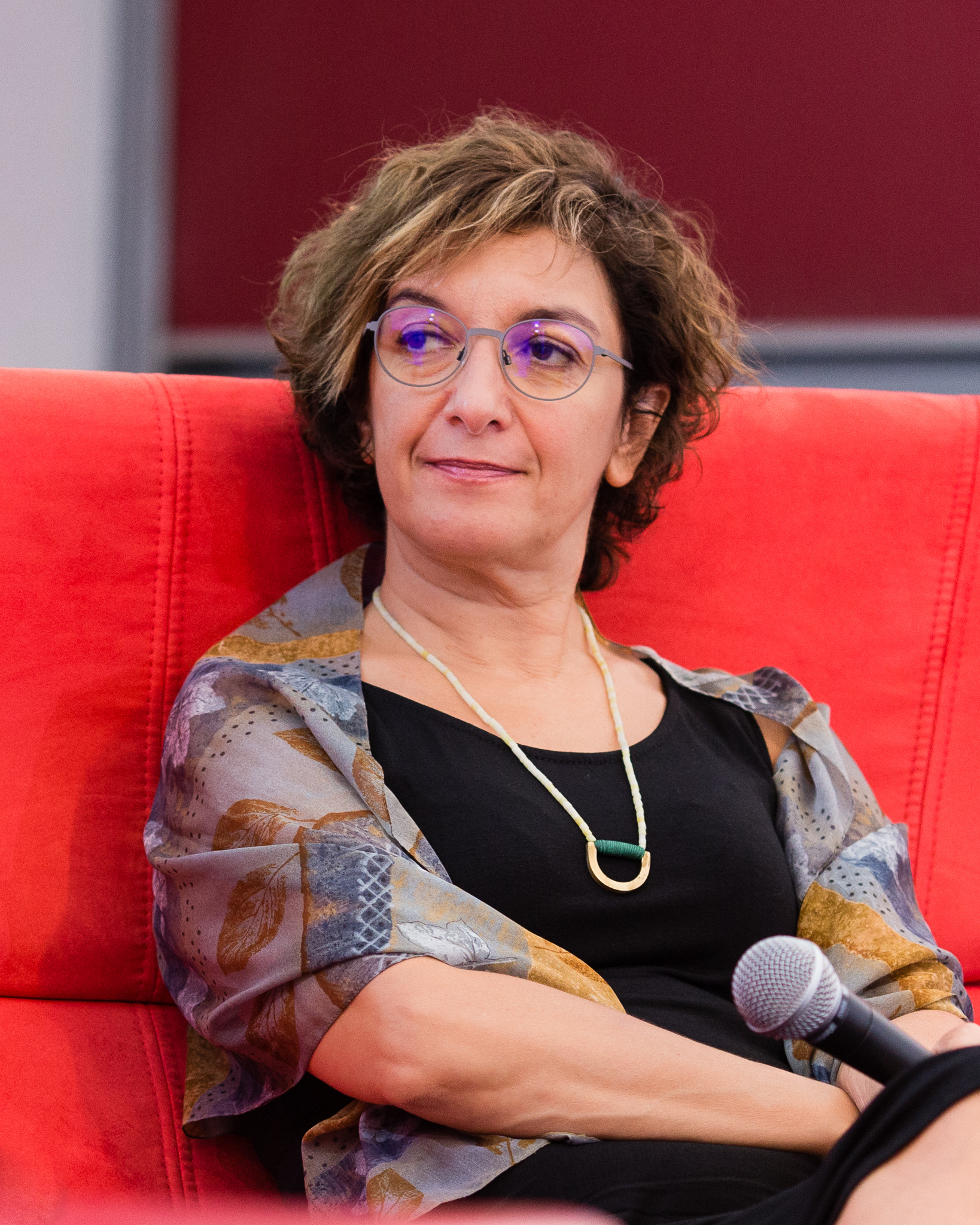 Gaye Boralıoğlu on Authors’ Reading Month 2018, Wrocław, Poland